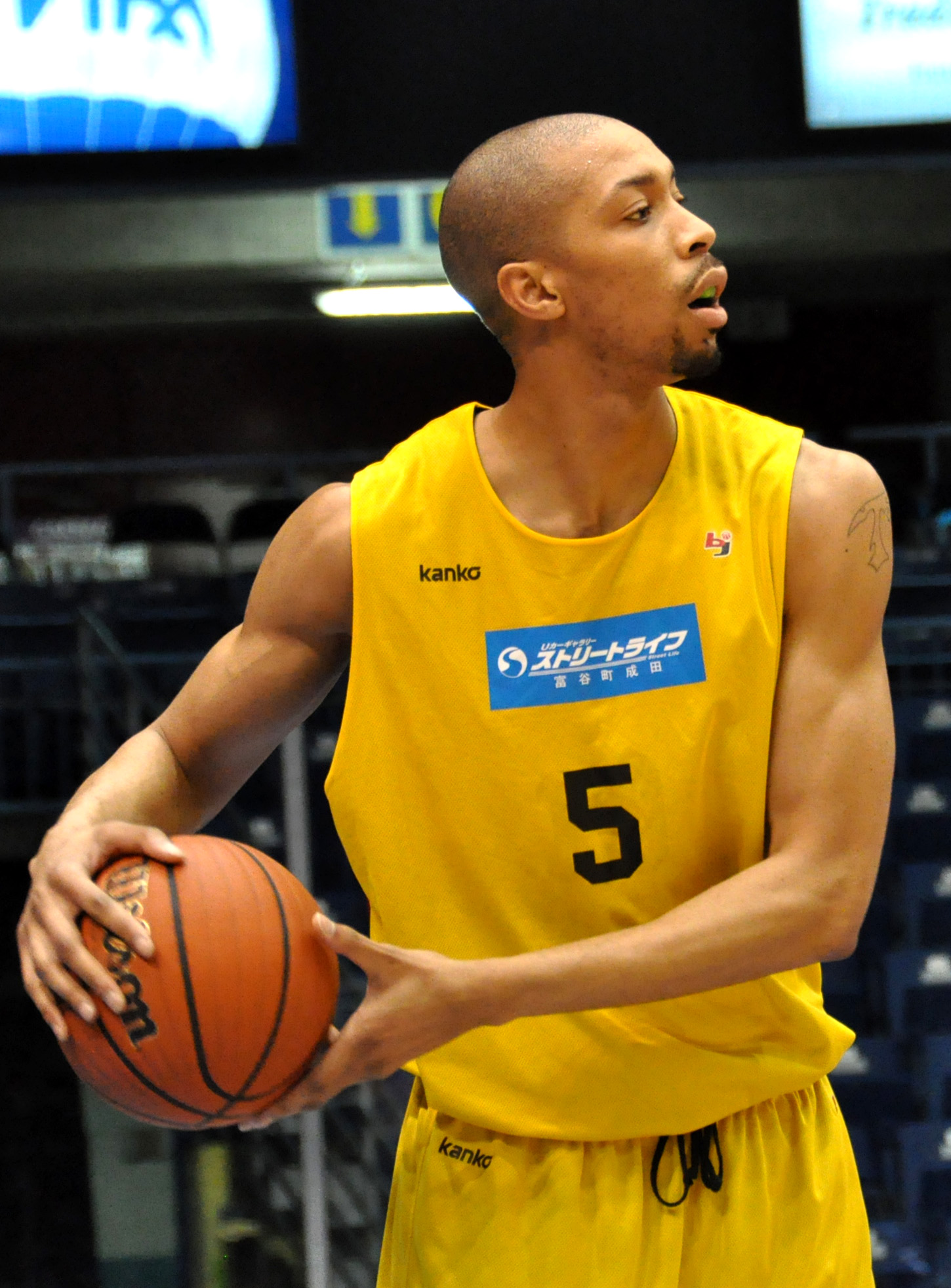 Terrence Woodyard, Playing at a Japanese Benefit game in Saint John NB against the Saint John Millrats